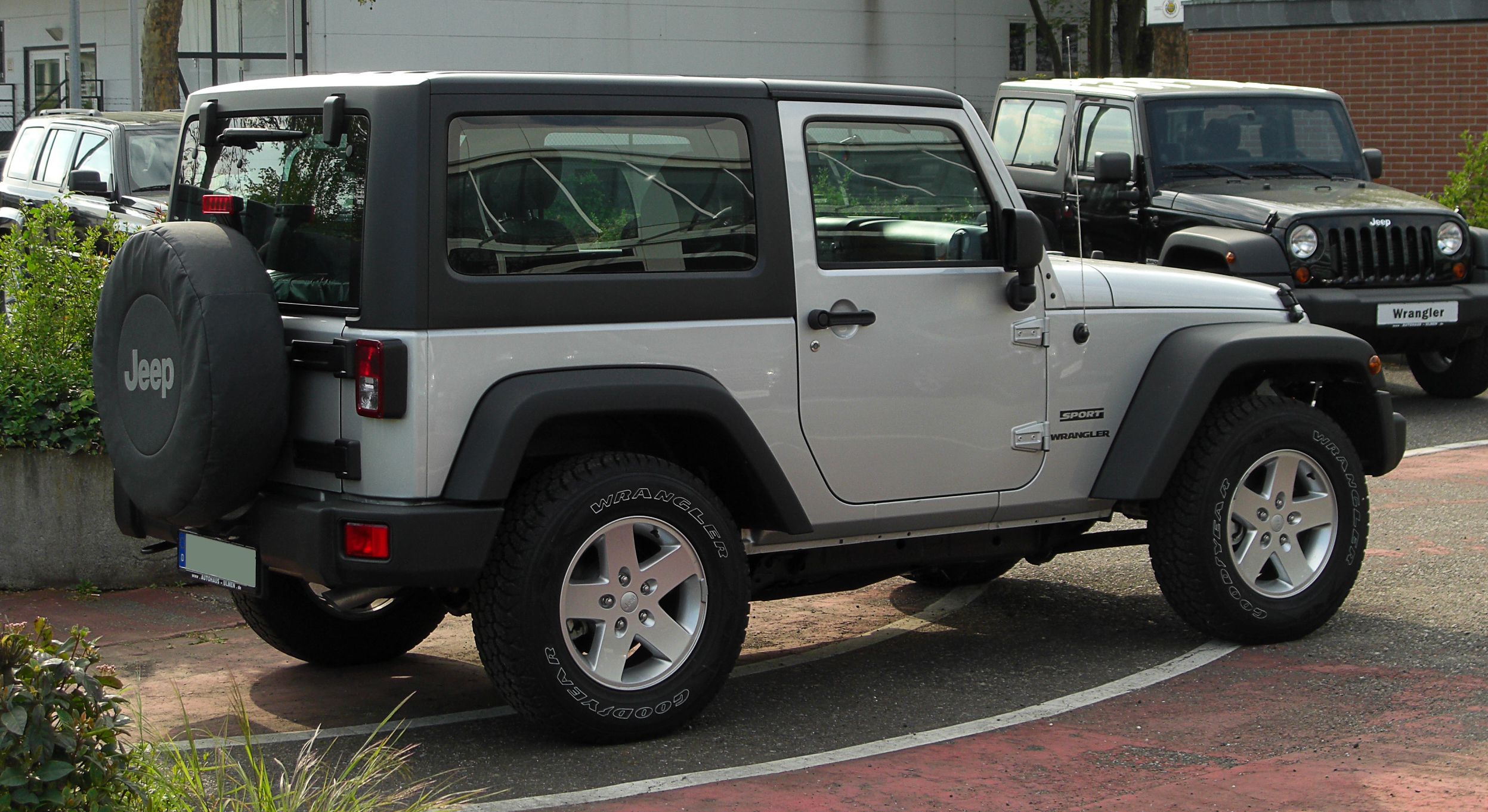 Jeep Wrangler Sport (JK)